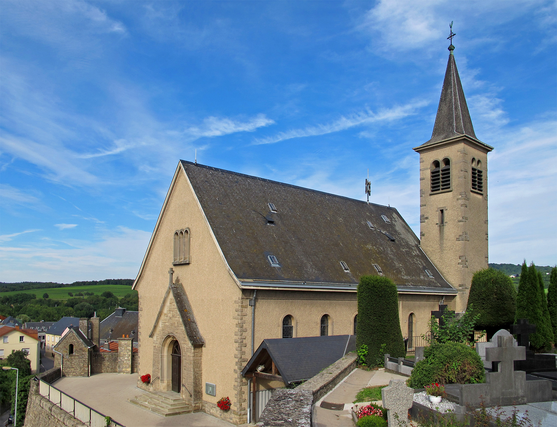 Church of Schengen, Luxembourg